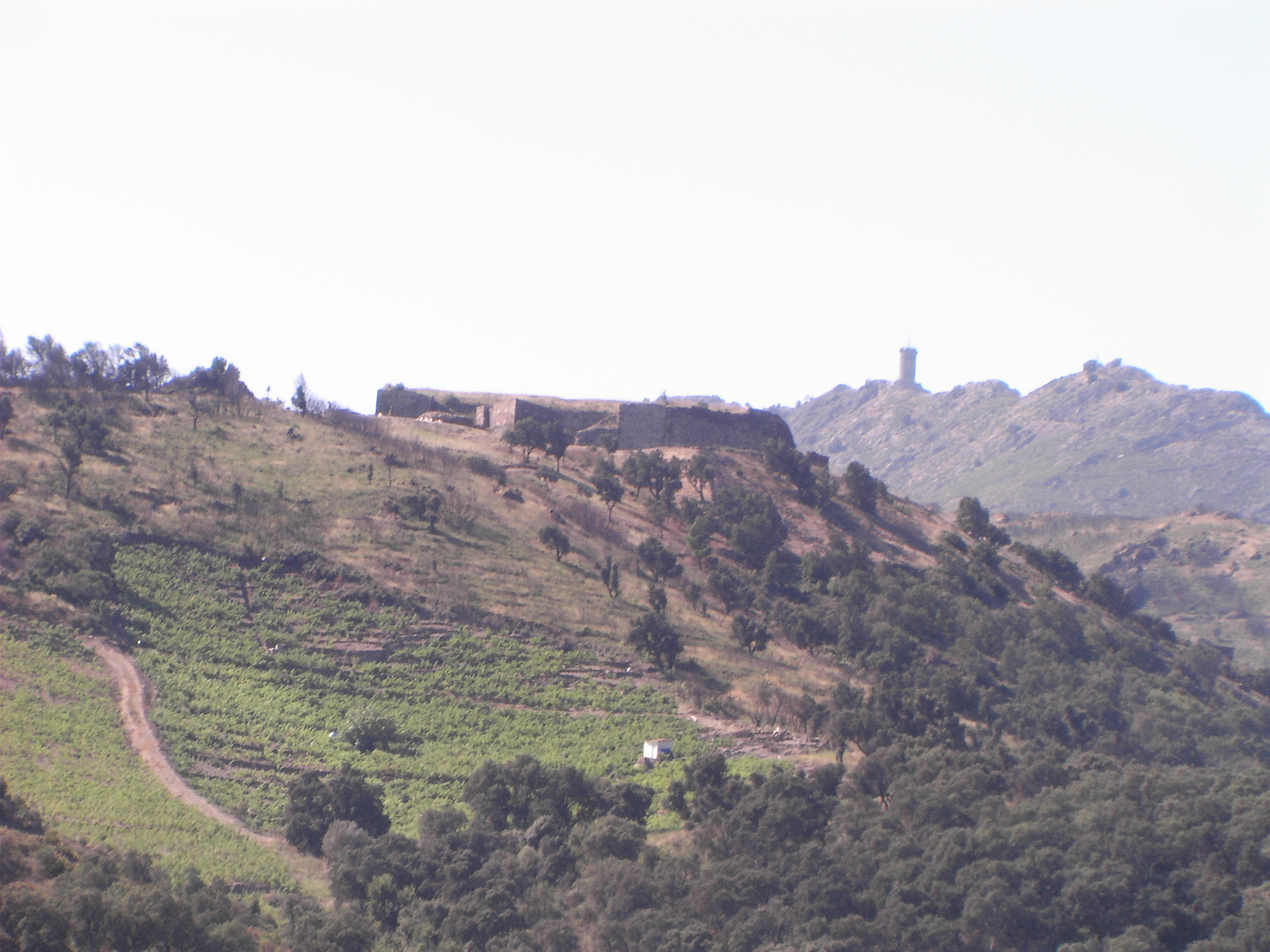 Strong point Dugommier (foreground) and tower Madeloc (background image).